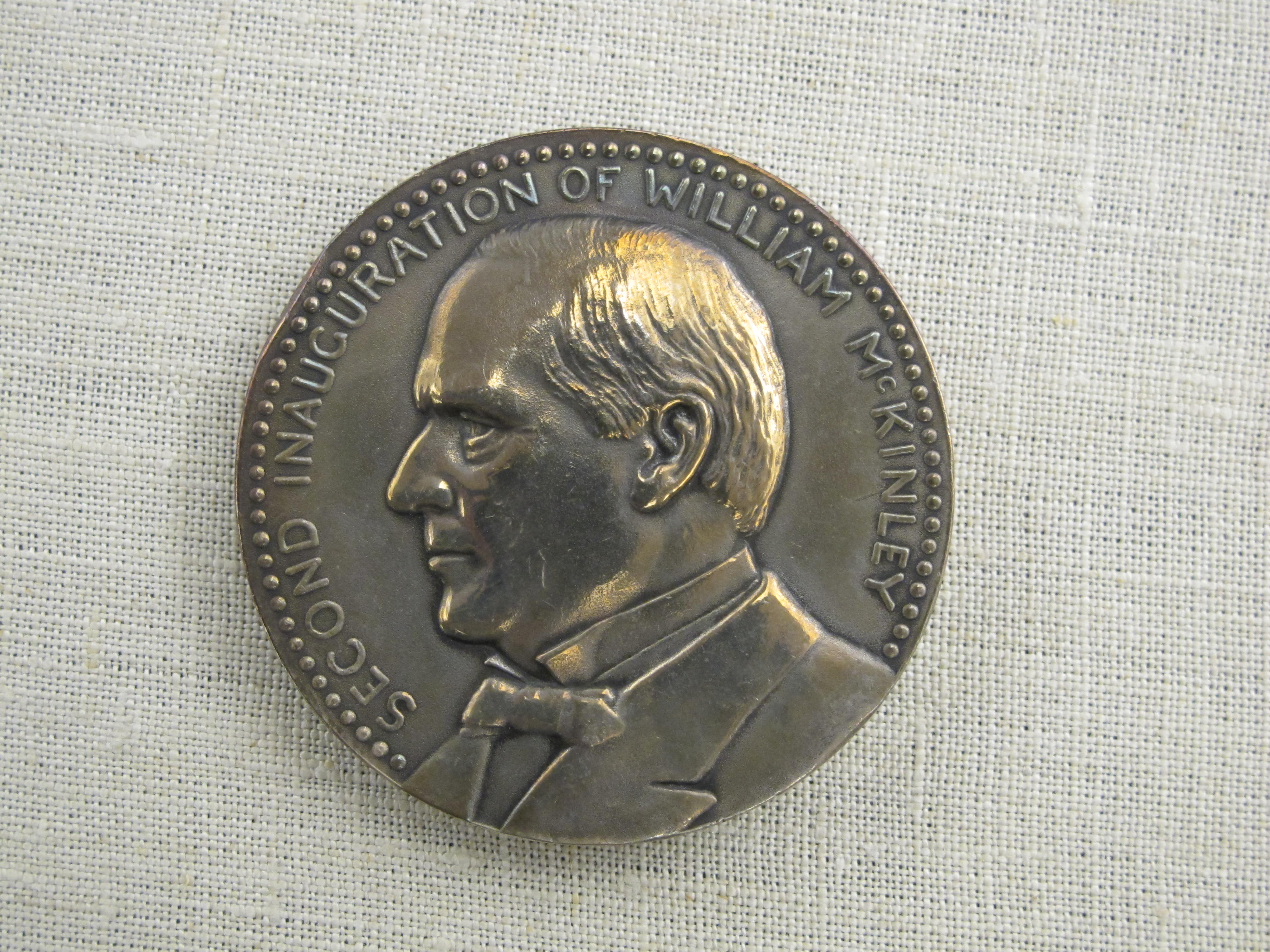 This is the front side of the Inauguration Medal of President McKinley. It is the first medal to be released by the Committee on Inauguration Medals and Badges.